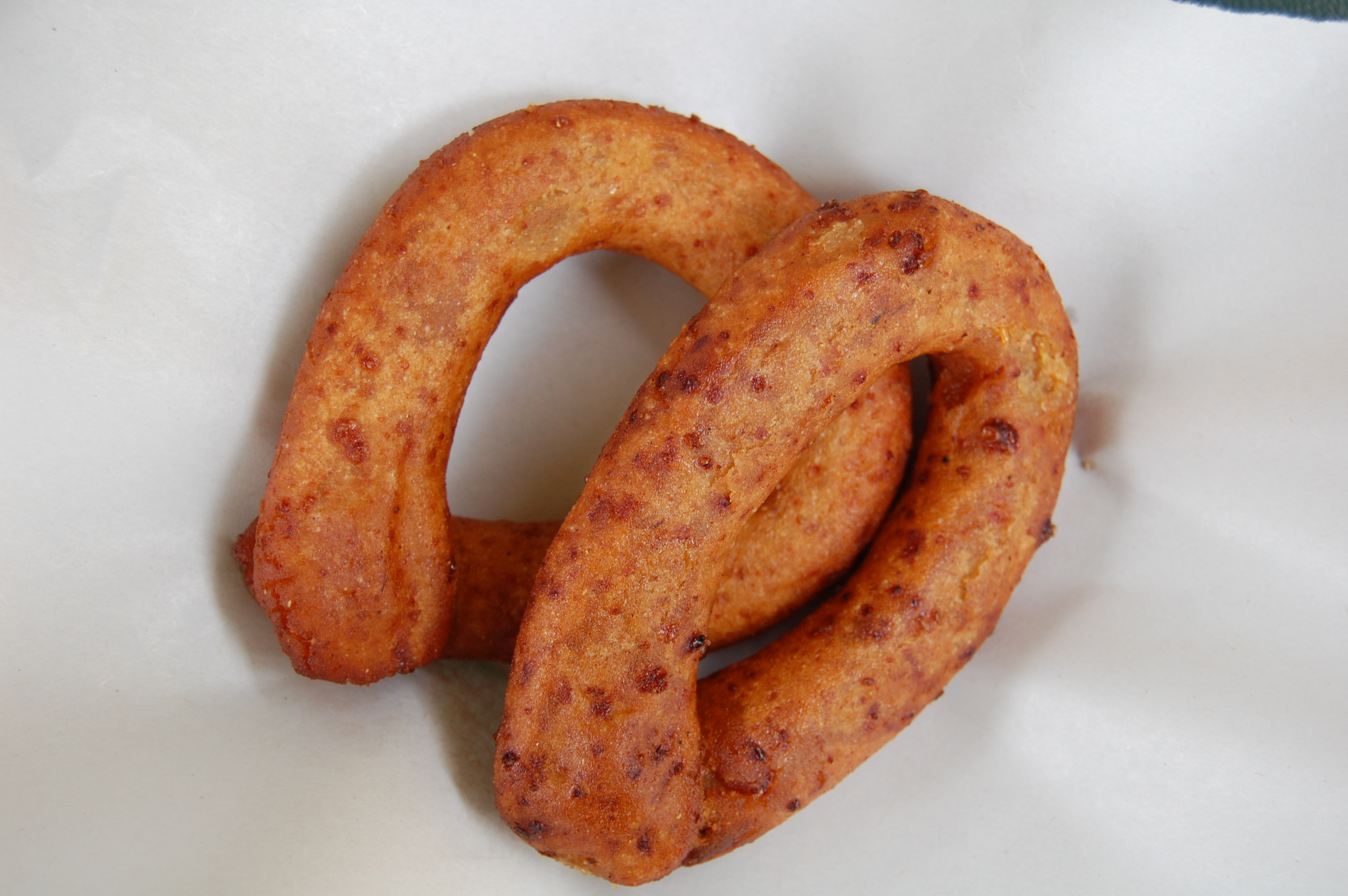 Mandocas, pretzel like, typical maracucho food from Maracaibo, Zulia, Venezuela